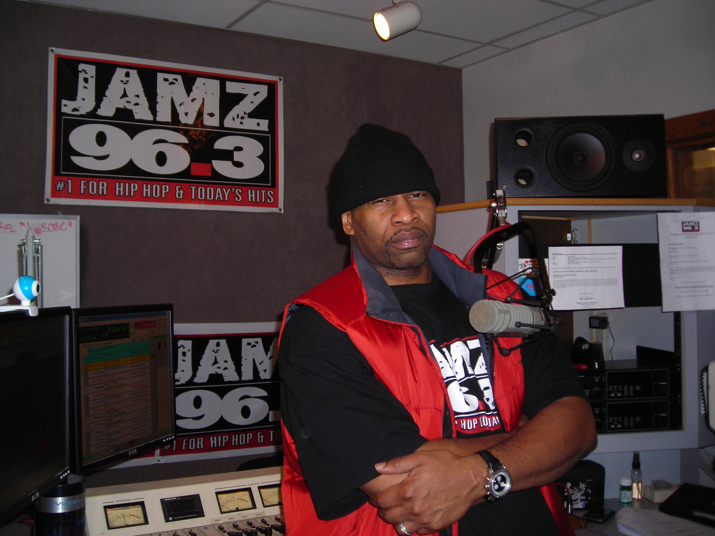 Dj Iroc At His Radio Show In New York.